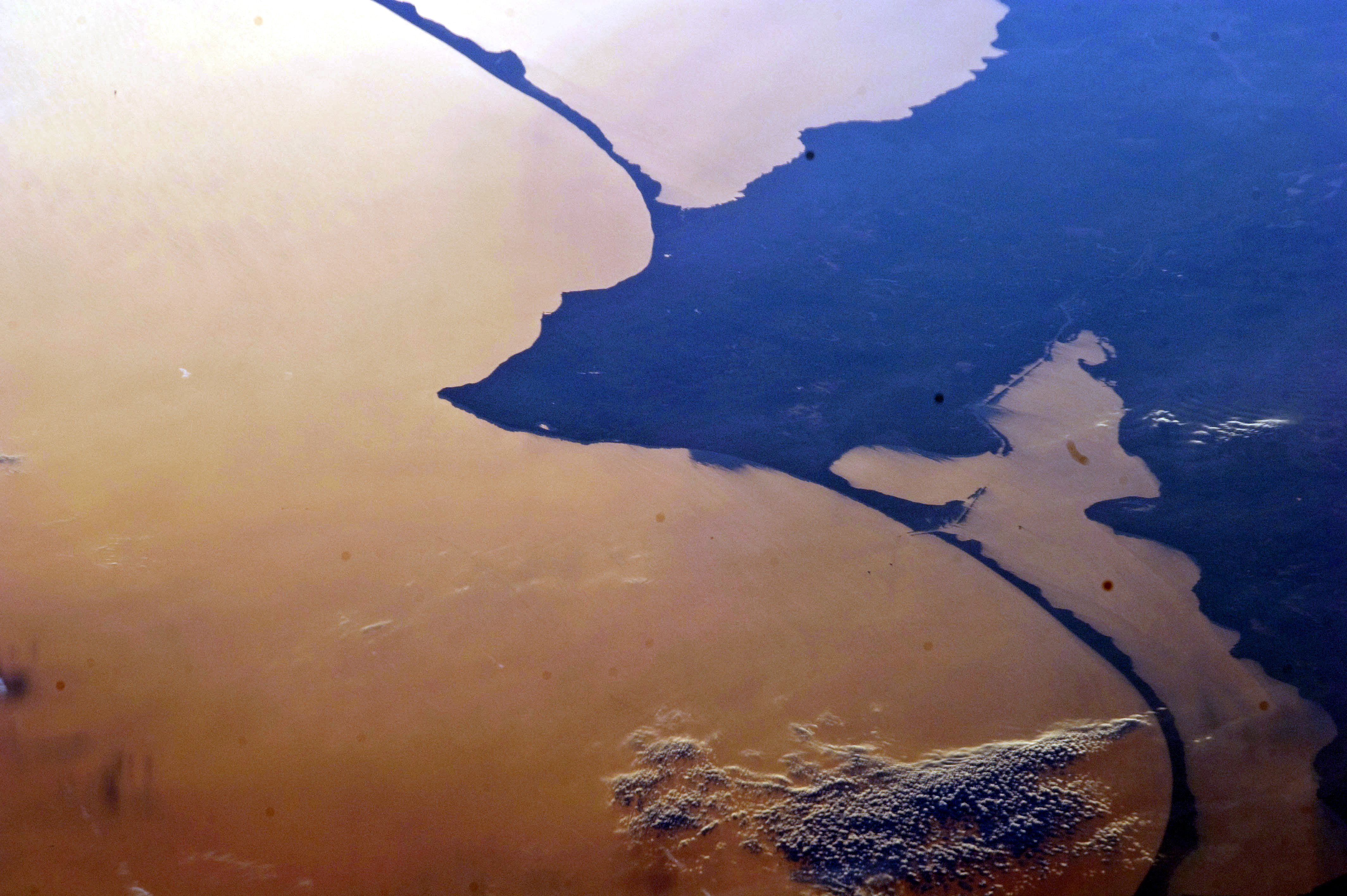 This photograph from the International Space Station captures two great lagoons to the north and south of Kaliningrad, Russia. The dark blue features are land. The beige mass at the top and the beige mass in the lower right are the lagoons. The largest mass of beige is the Baltic Sea. From an astronaut’s perspective in low-Earth orbit, land surfaces usually appear brighter than water. But in this image, reflected sunlight, or sunglint, inverts this pattern. The light has a coppery hue, perhaps due to smog particles in the air, which enhance the red part of the spectrum. The camera settings used to acquire sunlint images result in high contrast, which reveals the fine detail of coastlines and surface features of water bodies, while masking land surface details. The thin, 50 kilometre barge canal leading from the Baltic to Kaliningrad is visible, but the great port of Kaliningrad itself is not. Other human patterns on this intensively developed landscape—such as towns, highways and farm boundaries—are likewise masked. The area has a long human history. The growth of the Vistula spit finally cut off the north Polish city of Elblag (just beyond the bottom of the image) from the Baltic Sea in the 13th century. To reconnect Elblag with the Baltic Sea, the European Union is considering whether to fund the creation of another canal through the spit at image lower right, despite ecological concerns.